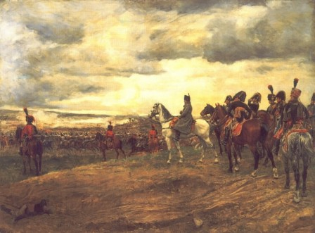 Napoleon at the battle of Jena